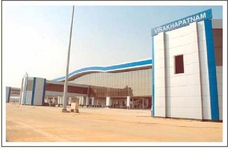 Vizag_Airport_RearEnd